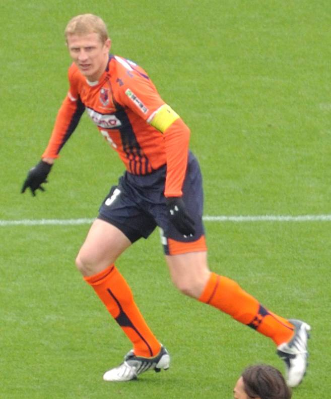 Mato Neretljak cropped from DSC_1520